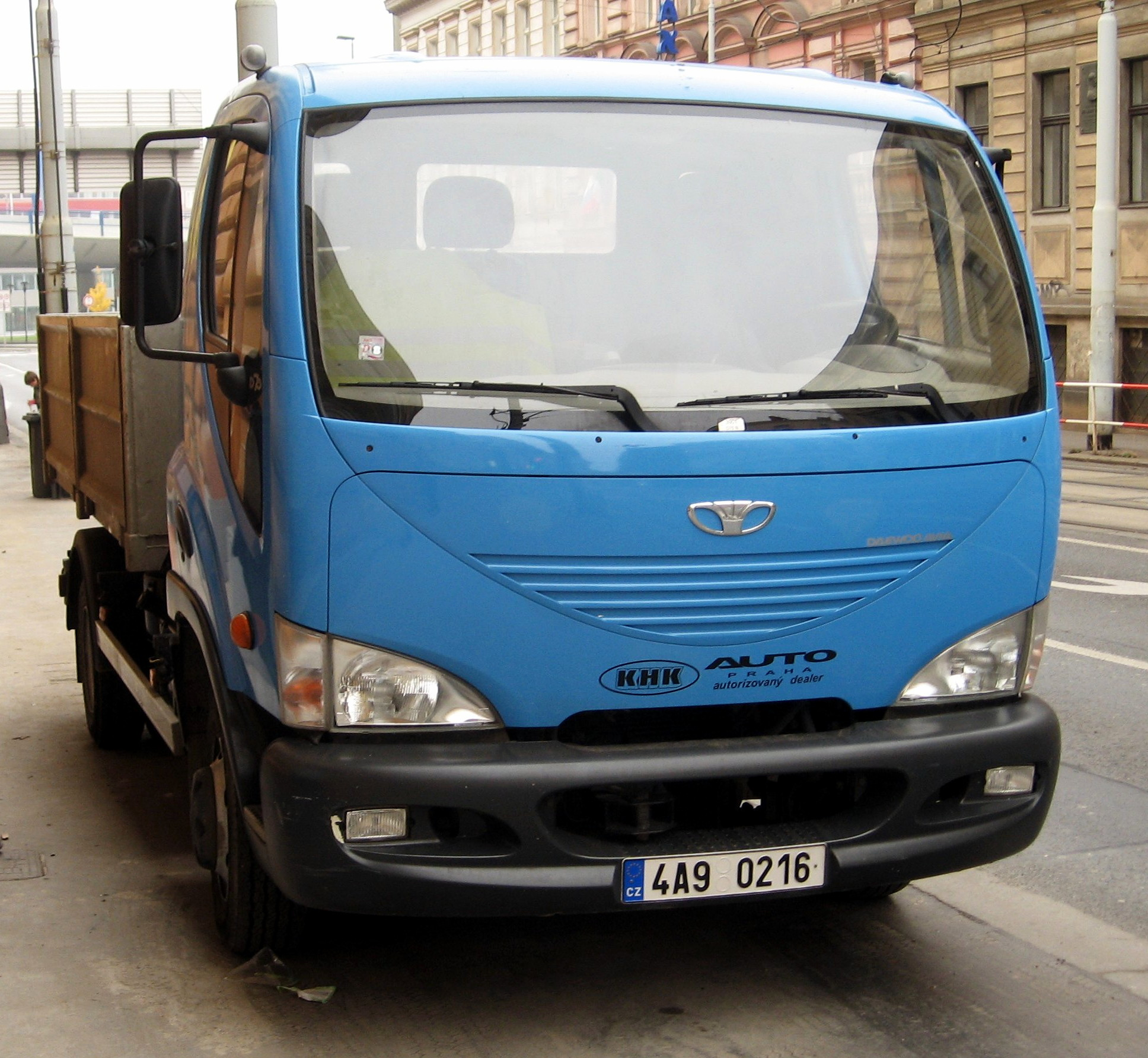 Daewoo-Avia truck, Prague, Pilsen Street